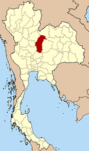 Map of Thailand showing the extent for the Monthon Phetchabun as of 1915.